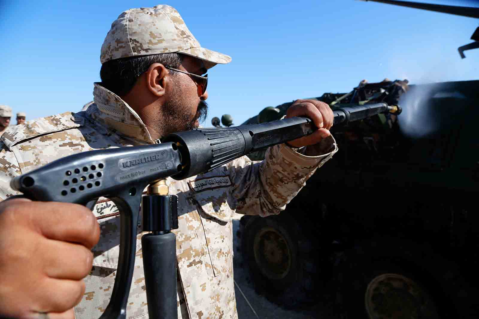 U.S. 5TH FLEET AREA OF RESPONSIBILITY (Dec. 12, 2014) A Saudi Marine practices spraying down a light armored vehicle during bilateral operational decontamination training with U.S. Marines from the 11th Marine Expeditionary Unit (MEU), as part of Exercise Red Reef 15 in the U.S. 5th Fleet area of responsibility, Dec. 12, 2014. Red Reef, is part of a routine theater security cooperation engagement plan between the U.S. Navy, U.S. Marine Corps and Royal Saudi Naval Forces that serves as an excellent opportunity to strengthen tactical proficiency in critical mission areas and support long-term regional security.(U.S. Marine Corps photos by Gunnery Sgt. Rome M. Lazarus/Released)